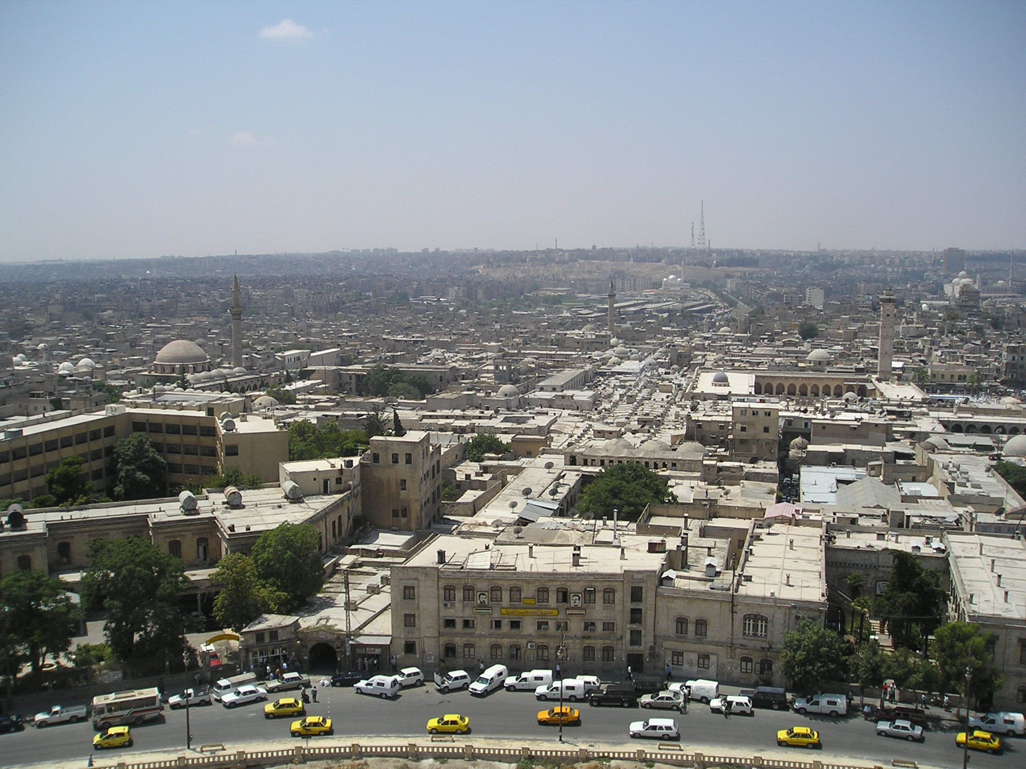 Aleppo, Syria - a view from the citadel to the old town (souq et al.)